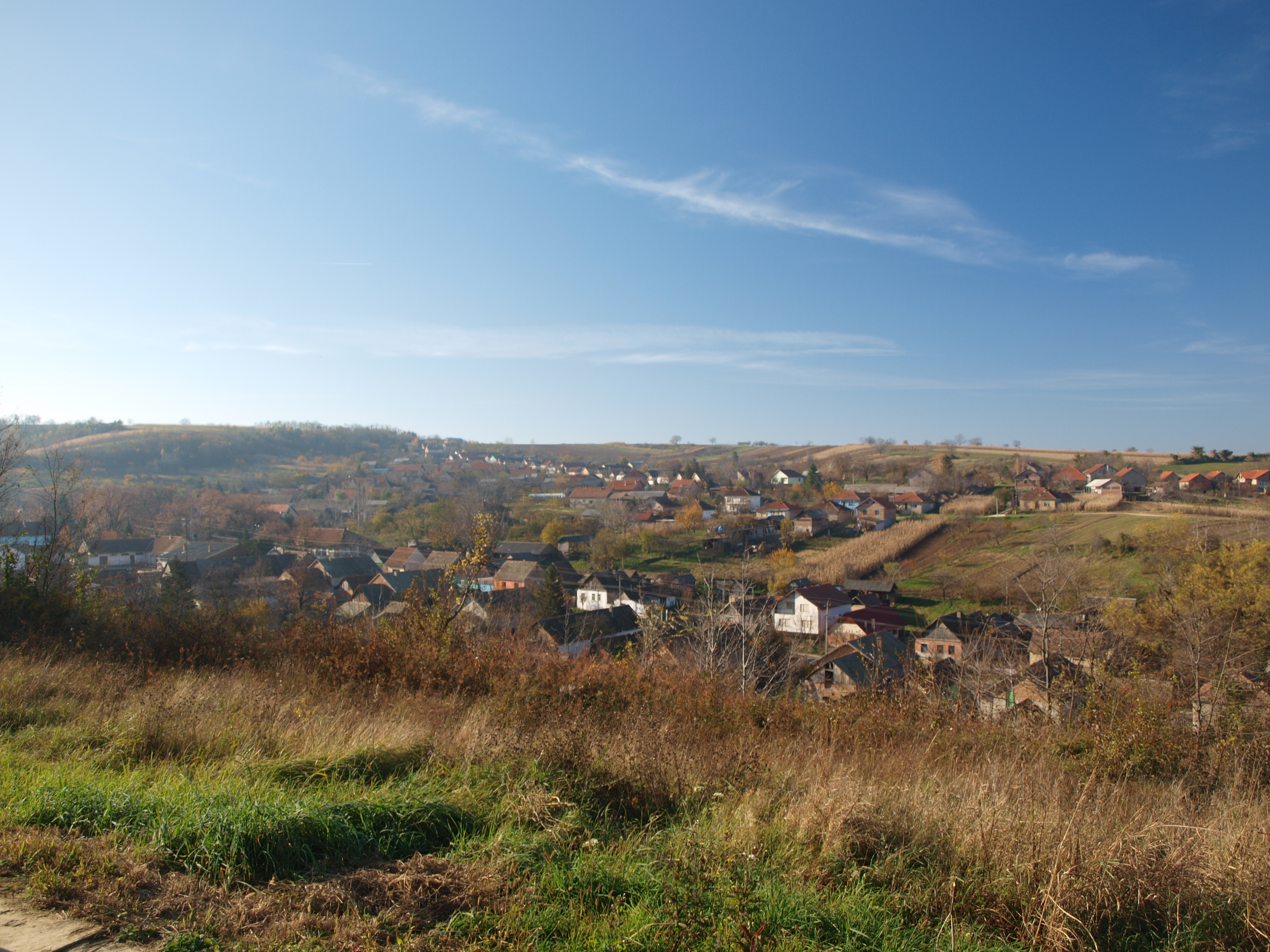 Village of Lug, Srem, Serbia.